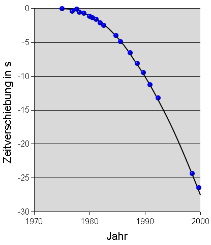 Double star system PSR 1913+16 looses energy due to gravitational wave radiation. Diagram compares calculated (solid line) and measured change of revolution time.